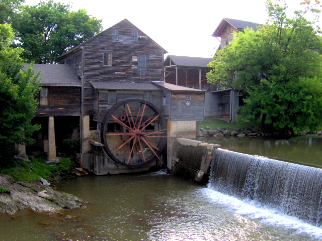 The Old Mill, the oldest building in Pigeon Forge, Tennessee. The mill was constructed ca. 1830 by the Love family, and passed to the Trotter family shortly thereafter. The accompanying mill dam was built in 1916. The mill is located on Old Mill Road, just off US-441. The mill is now a general store and restaurant, and is listed on the National Register of Historic Places.